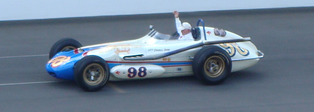 Parnelli Jones drives the Agajanian-Willard Battery Special, his car from the 1962 and 1963 Indianapolis 500s, around the Indianapolis Motor Speedway track in 2012. 2012 marked the 50th anniversary of Jones becoming the first person to qualify for the Indianapolis 500 with a speed above 150 miles per hour. Jones won the 1963 Indianapolis 500.